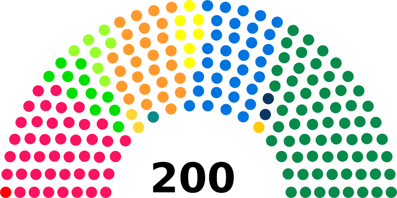 Seats diagramme of Swiss National Council (2015)